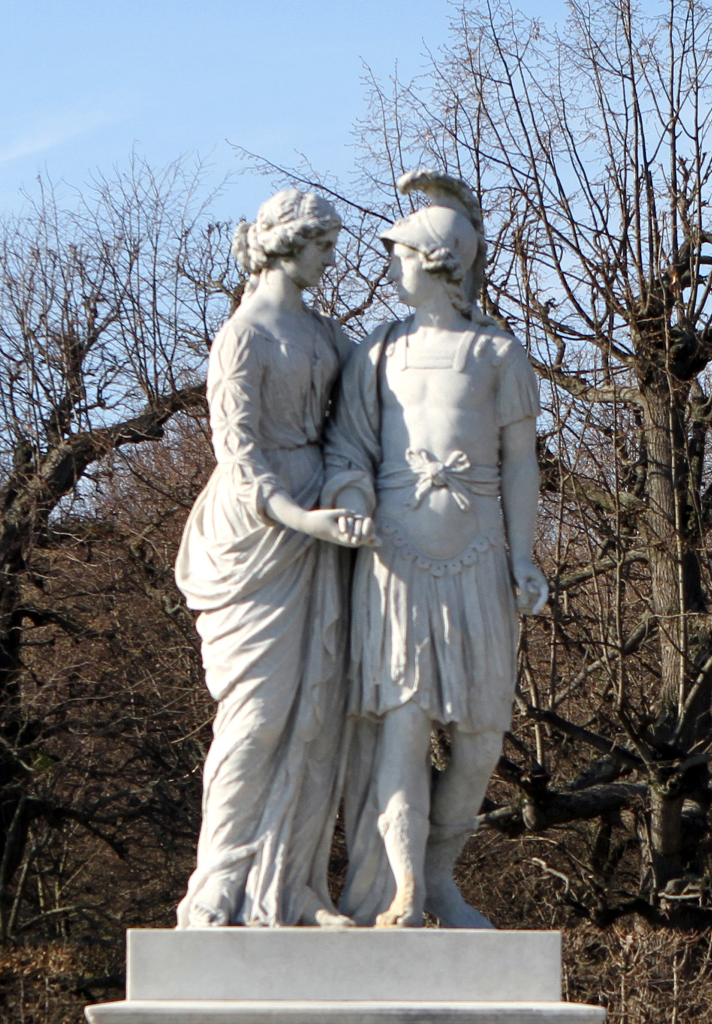 Alexander and Olympias, Schönbrunn, Vienna